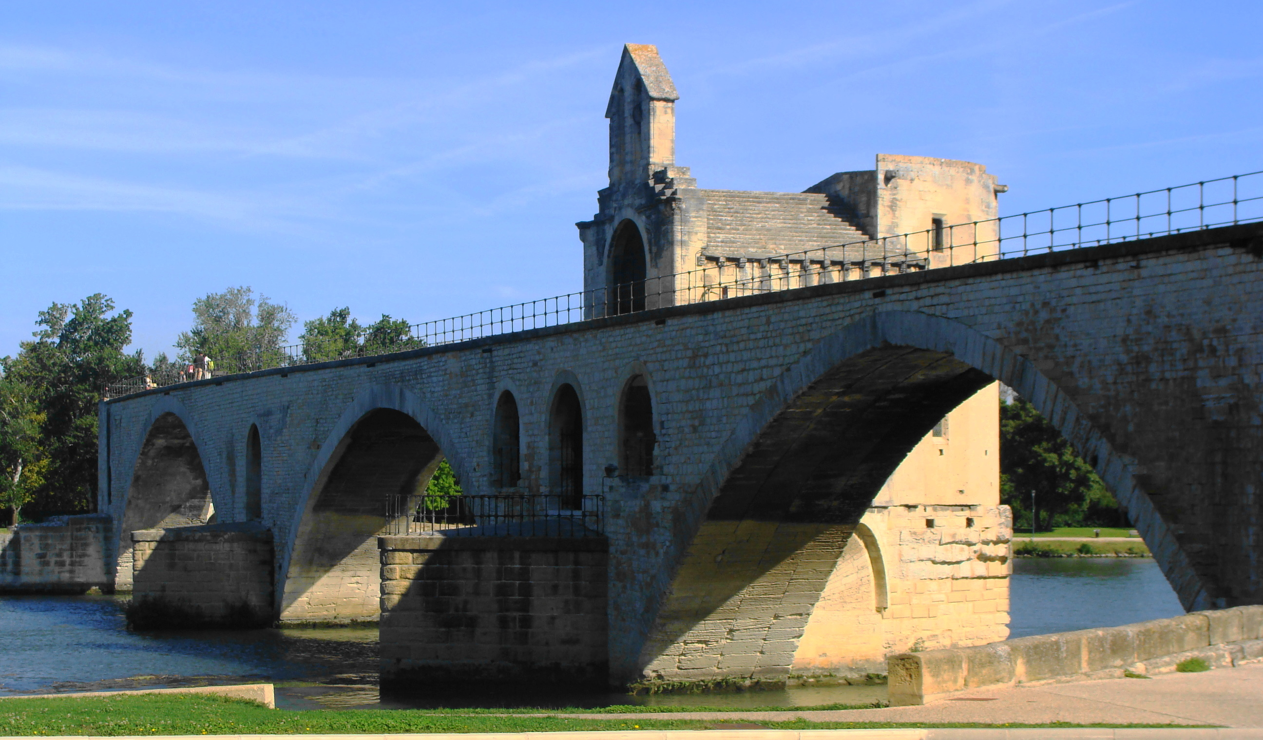 Pont Saint-Bénézet